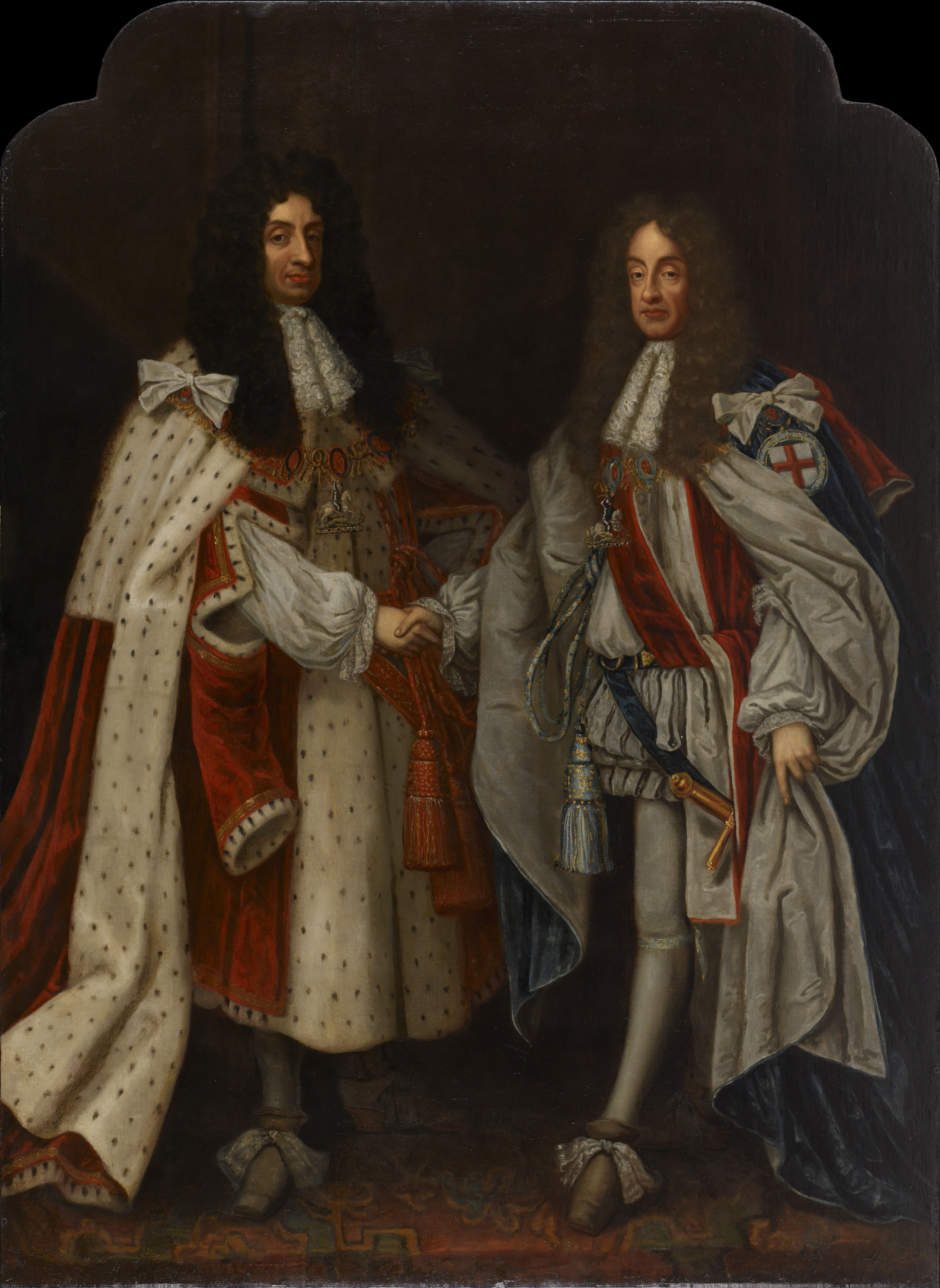 Charles II of England (1630-85) Reigned 1660-85 and King James II of England and VII (1633-1701) Reigned 1685-88